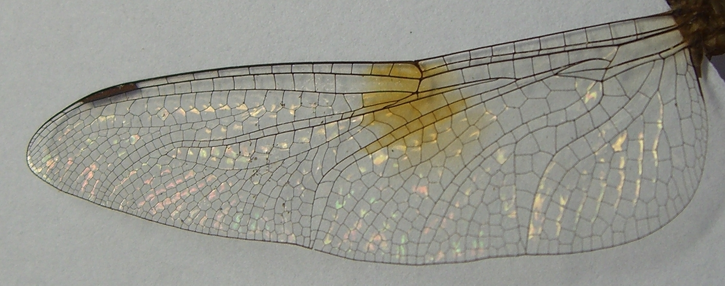 Description: Detail of the hindwing of Tholymis citrina, (male)